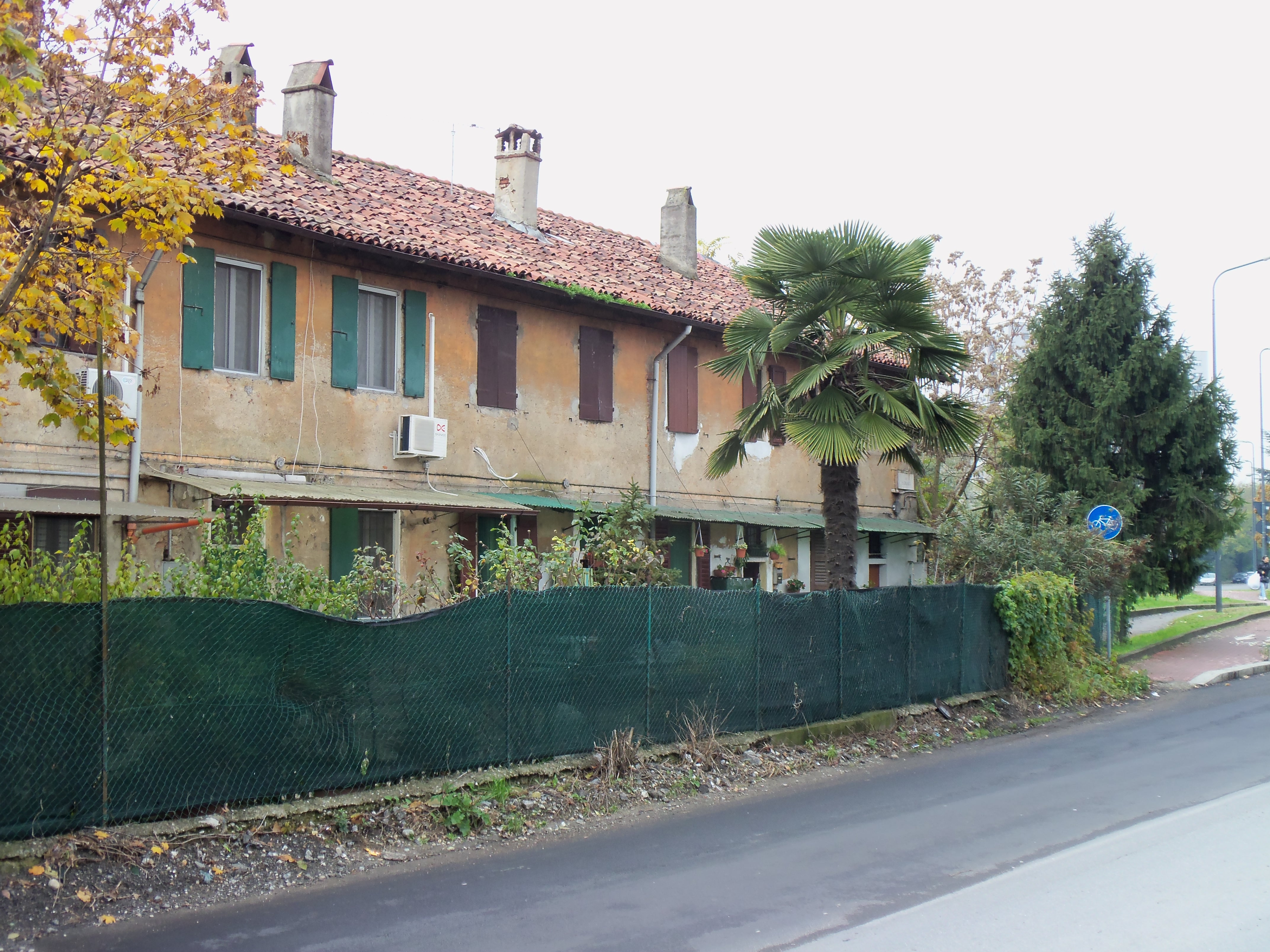 Curiously, a prosperous palm near Cascina Nosedo (Milan)